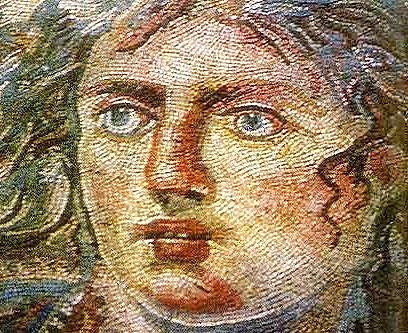 Photograph of a mosaic of Tethys from Phillopolis that dates to the mid-fourth-century; she is a goddess who most probably was a primordial deity in Archaic Greece, but who was seen in Classical myths as the deity responsible for the fresh water rivers of the world and the progenitor of thousands of water deities.